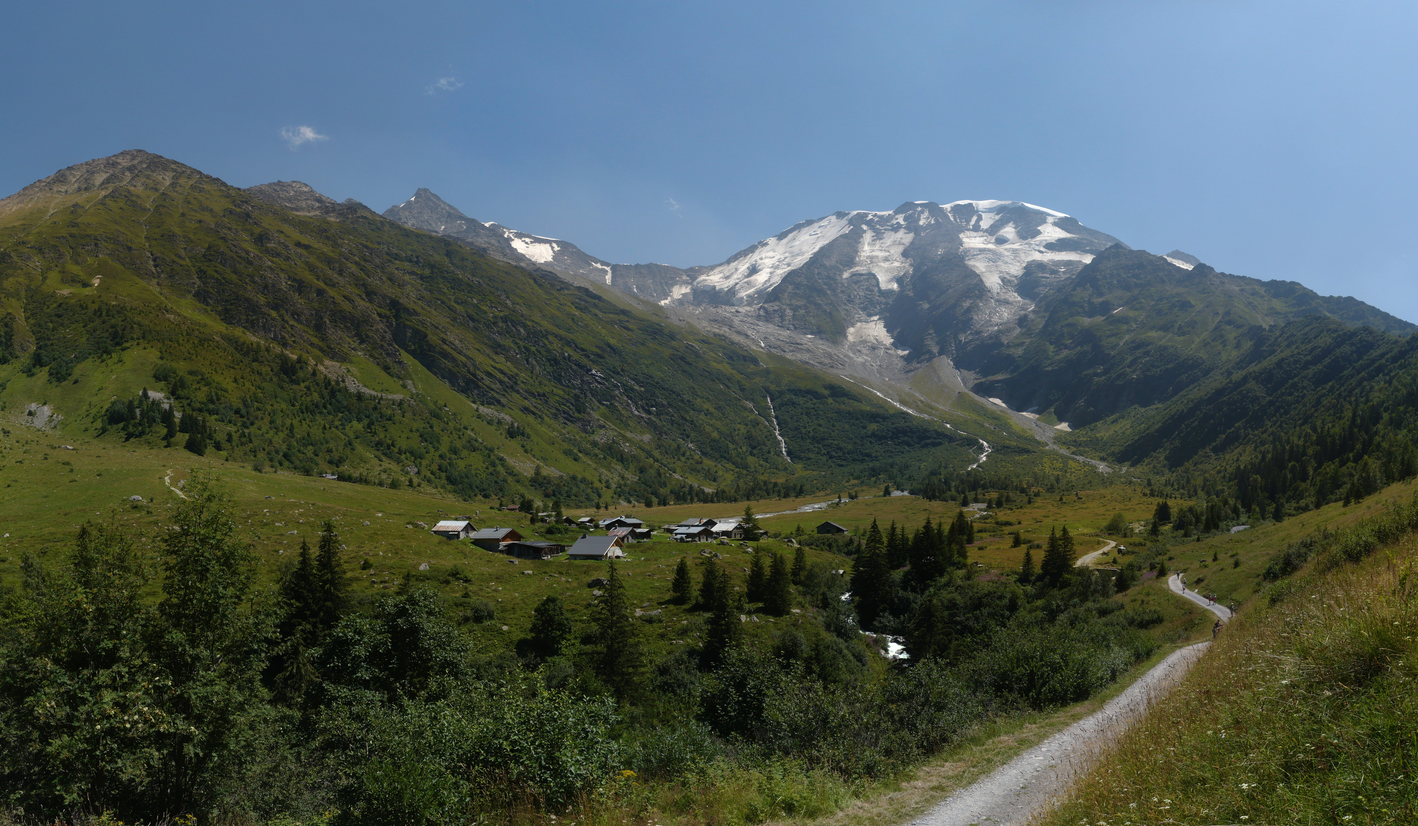 The mountain 'les dômes de Miage' and the hamlet 'les chalets de Miage', in the french alps - this is a lighter jpeg version of the 32 Mo picture File:Chalets_et_domes_de_Miage.png